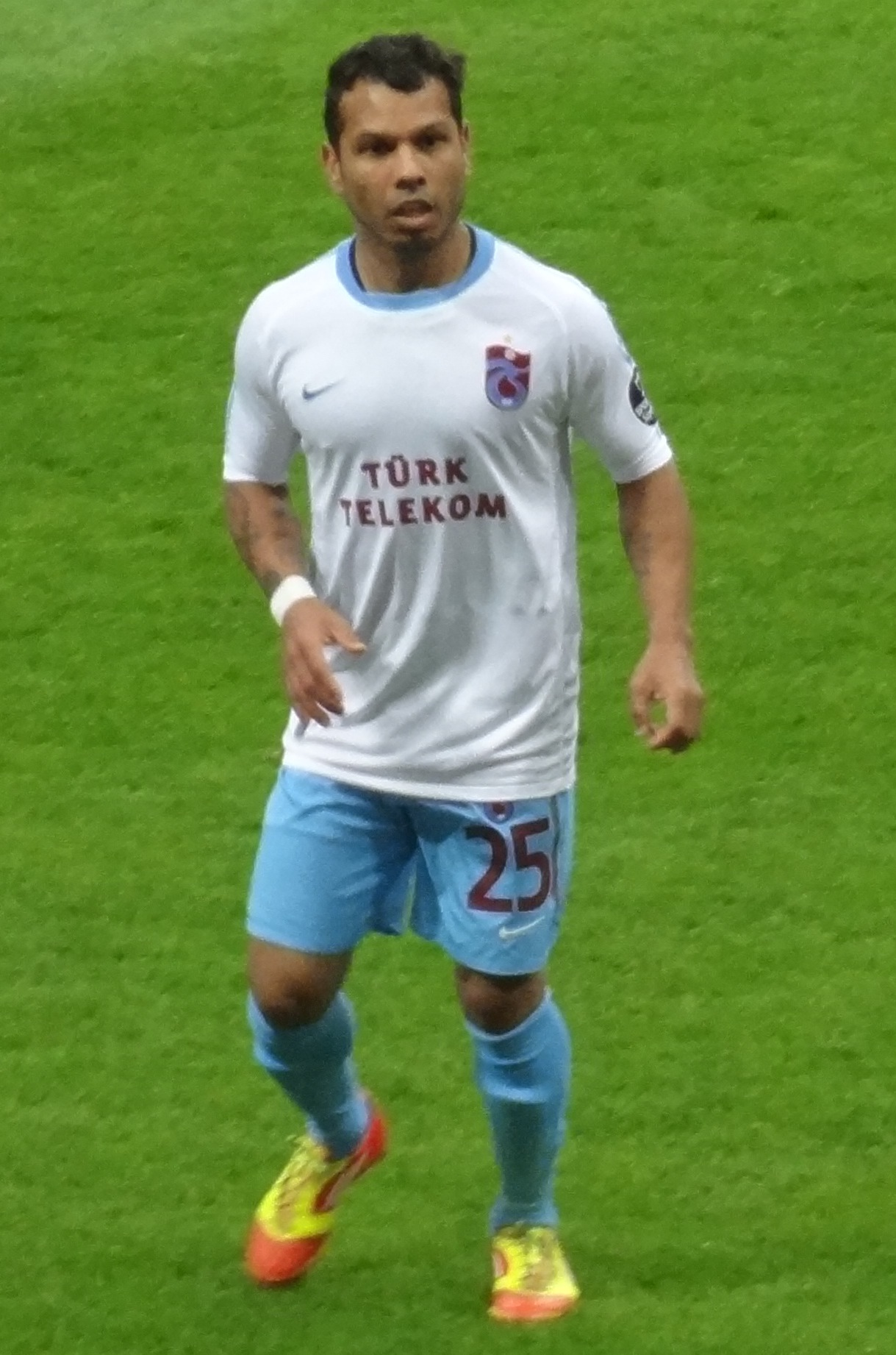 Alanzinho Galatasaray'a karşı forma giyerken